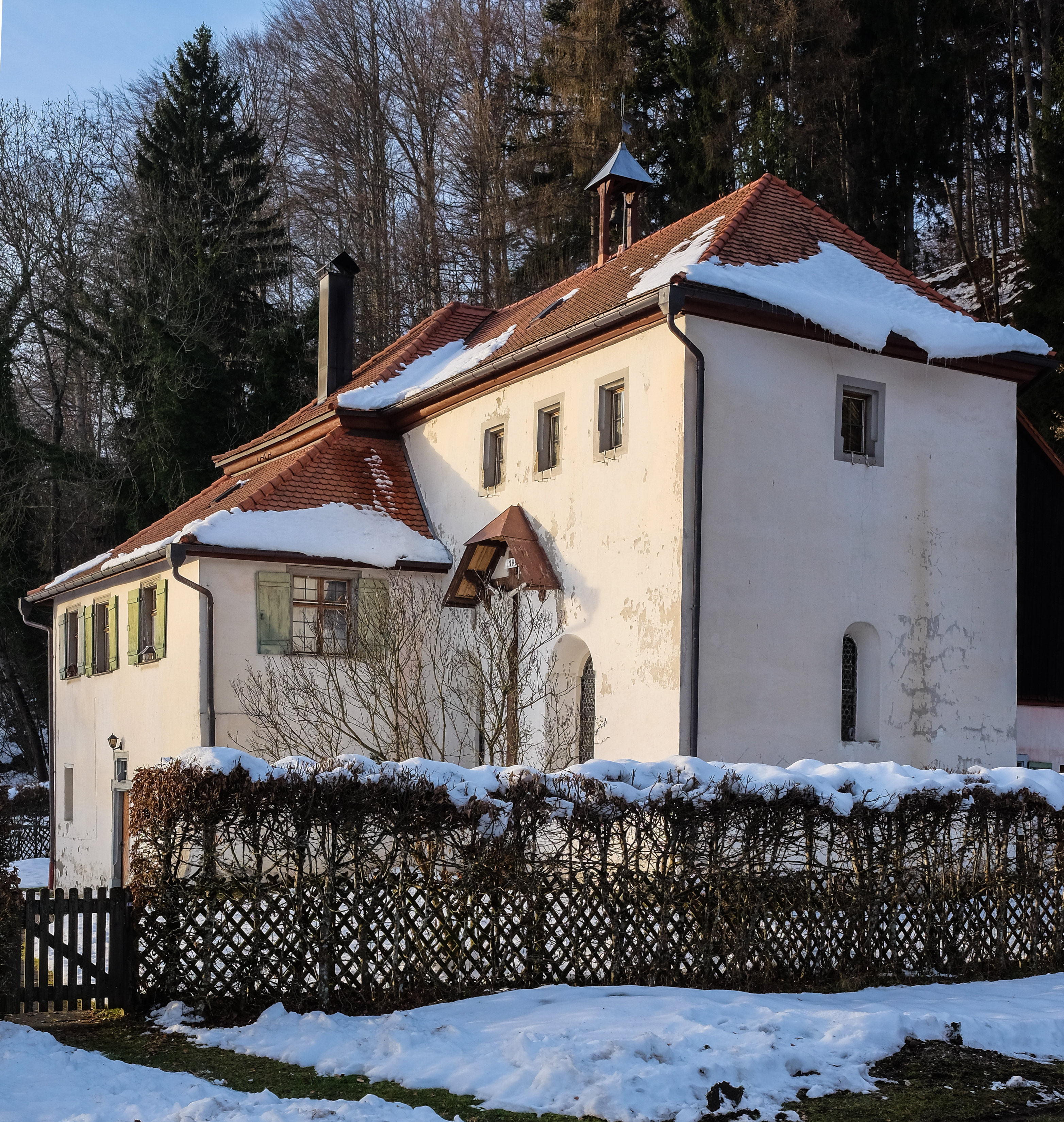 Trappist Monastery Klause Egg in Heiligenberg, district Bodenseekreis, Baden-Württemberg, Germany )